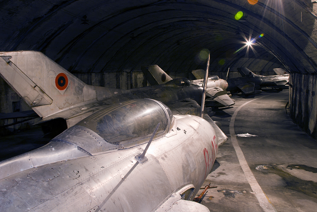 At Gjader many F6s are preserved in a tunnel.